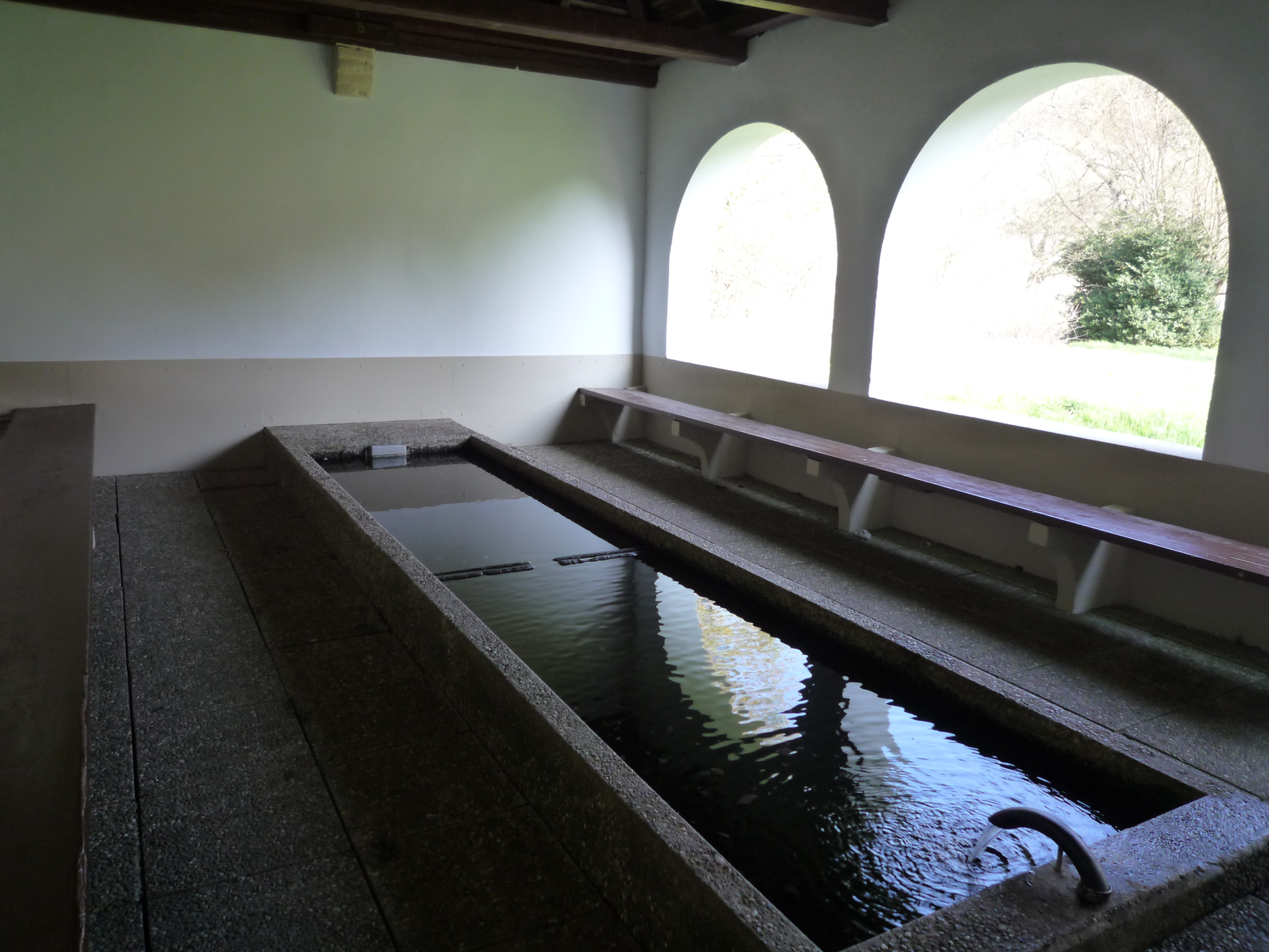 Washhouse in Oberwürzbach (St. Ingbert, Saarland, Germany)